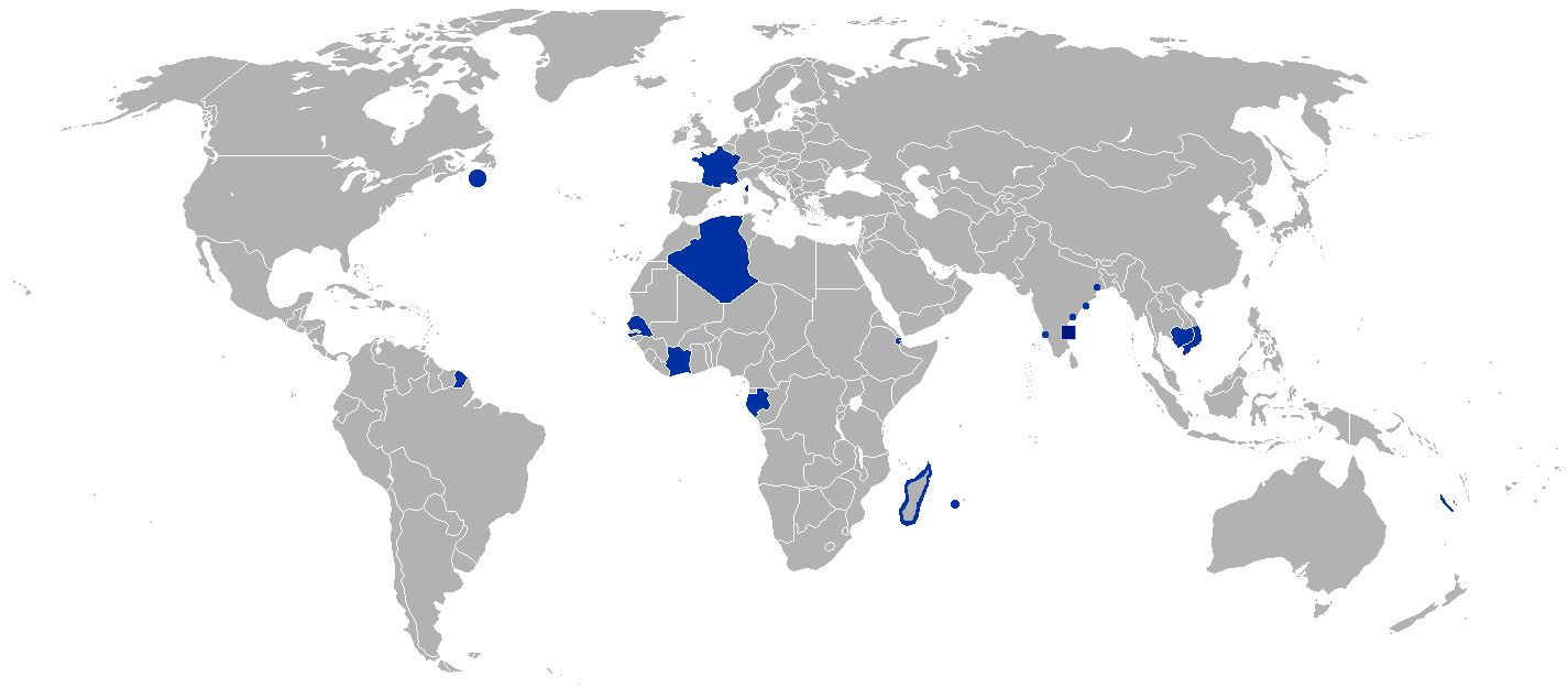 map of the second french empire redrawn.